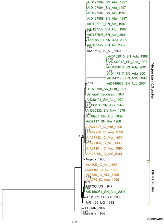 Consensus tree summarized after 1000 non-parametric bootstrap replicates, with support values greater than 60% shown in the nodes. The cluster the Ugandan MR766 prototype strain was highlighted by the yellow sector and the Nigerian cluster was highlighted by the green sector. The strains from Senegal and Côte d'Ivoire are shown in green and orange, respectively. The tree has been rooted with the Spondweni lineage isolated in South Africa was used as outgroup to root the tree.